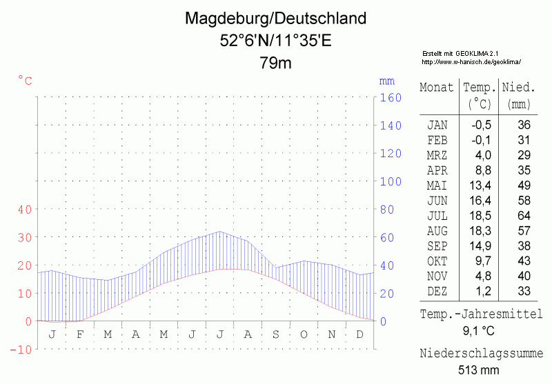 climate chart in the format by Walther and Lieth, metric, °Celsisus and millimeters, made with Geoklima 2.1